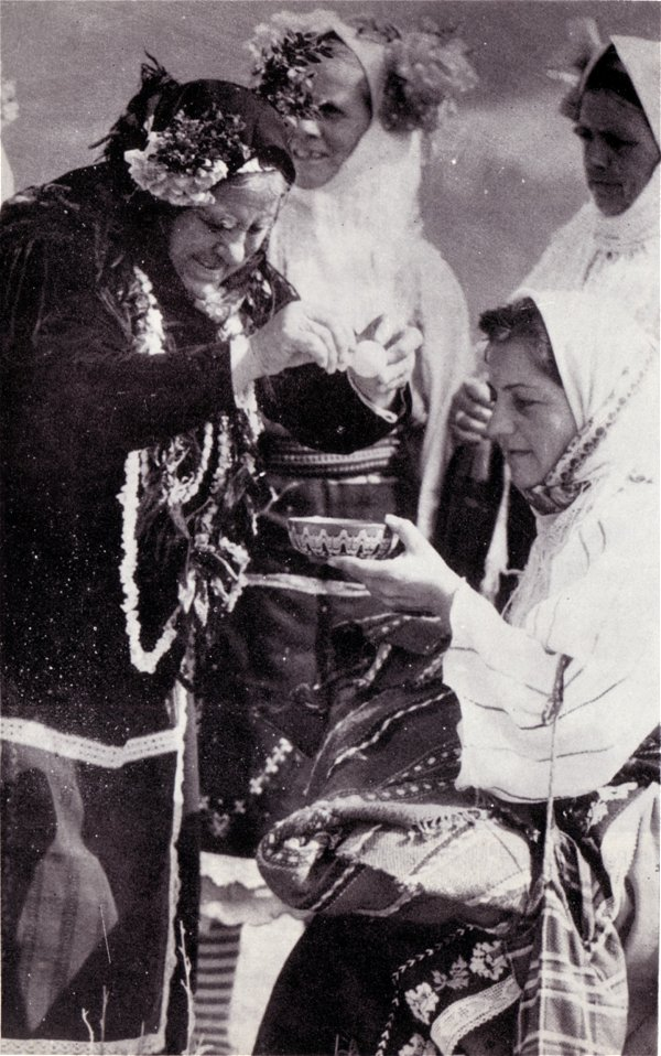 Moment of custom Babinden (reconstruction of Senokos, Tolbukhin District).